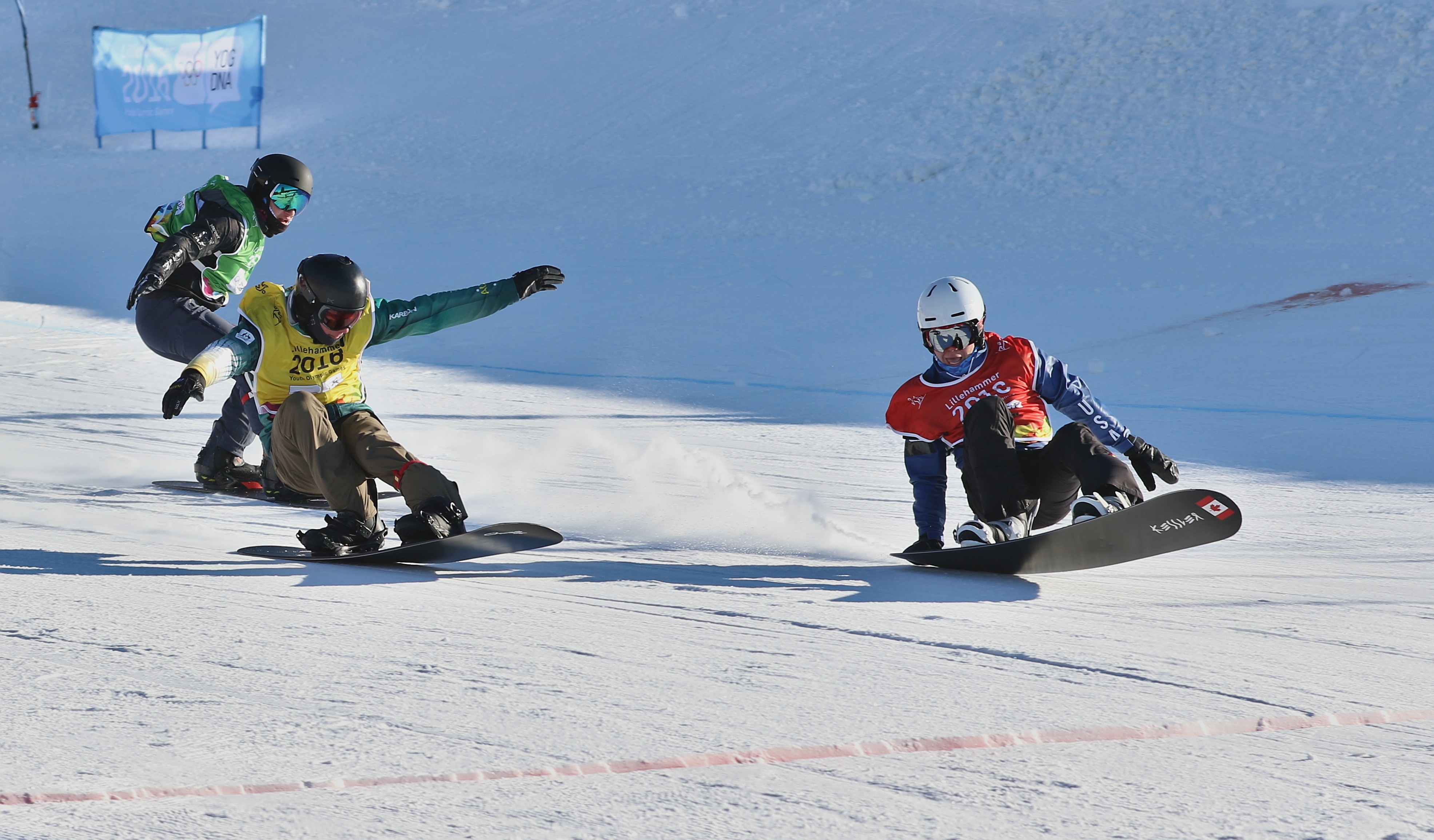 Lillehammer 2016 Snow cross men final - Jake Vedder (red, USA), Alex Dickson (yellow, AUS), Sebastian PIETRZYKOWSKI (green, GER)